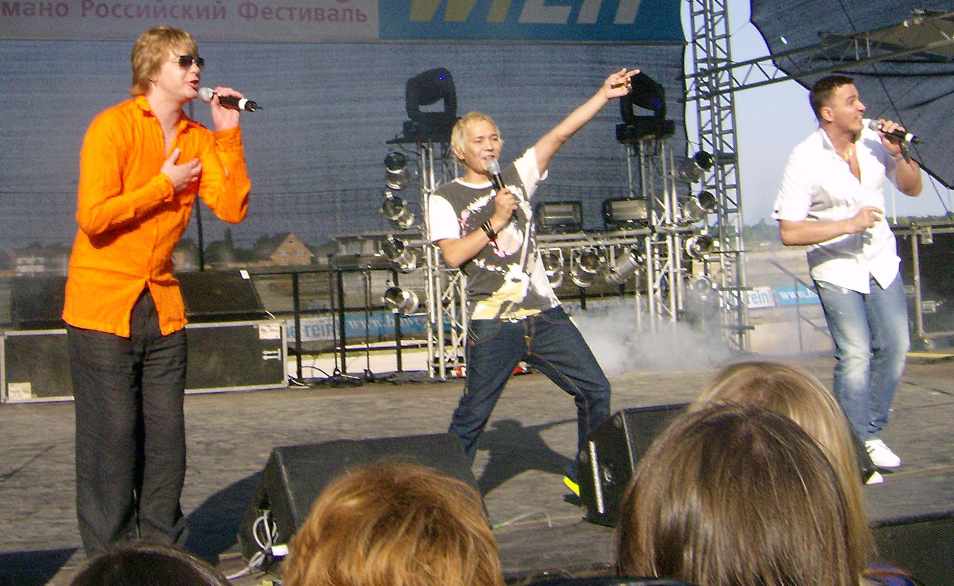 The Russian boy band Ivanushki International (Иванушки International) performing in Berlin, 8 June 2008.